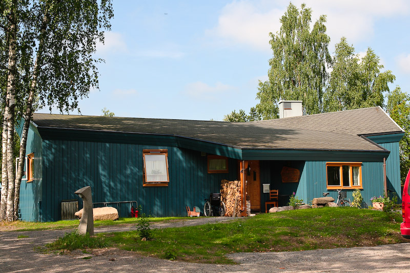 Henrik Wergeland hus Vidaråsen Landsby